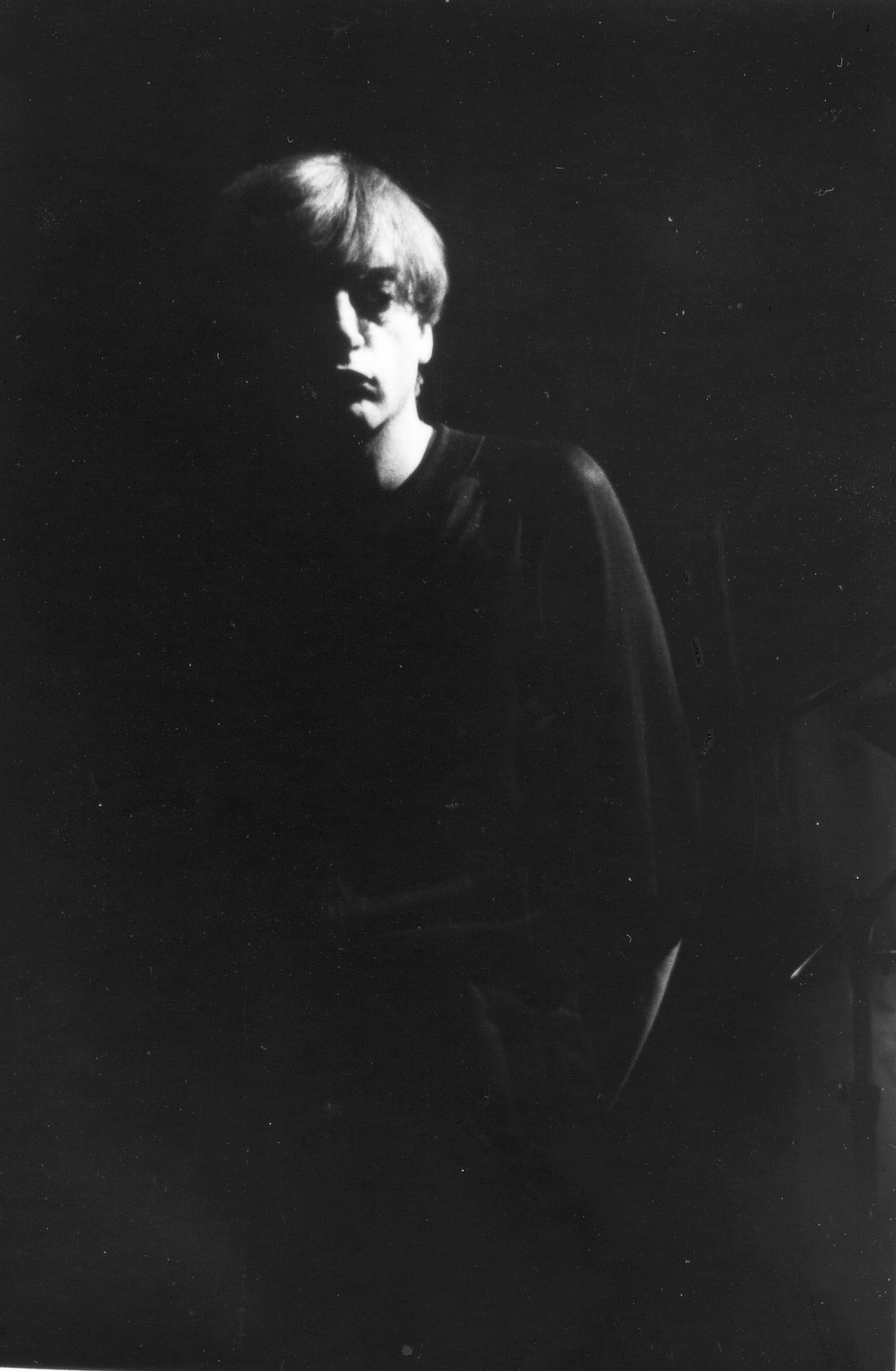 Mark E. Smith of The Fall 1990 kudan-kaikan, Tokyo